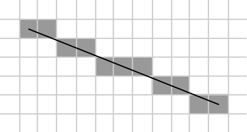 Illustration of the result of Bresenham's line algorithm.